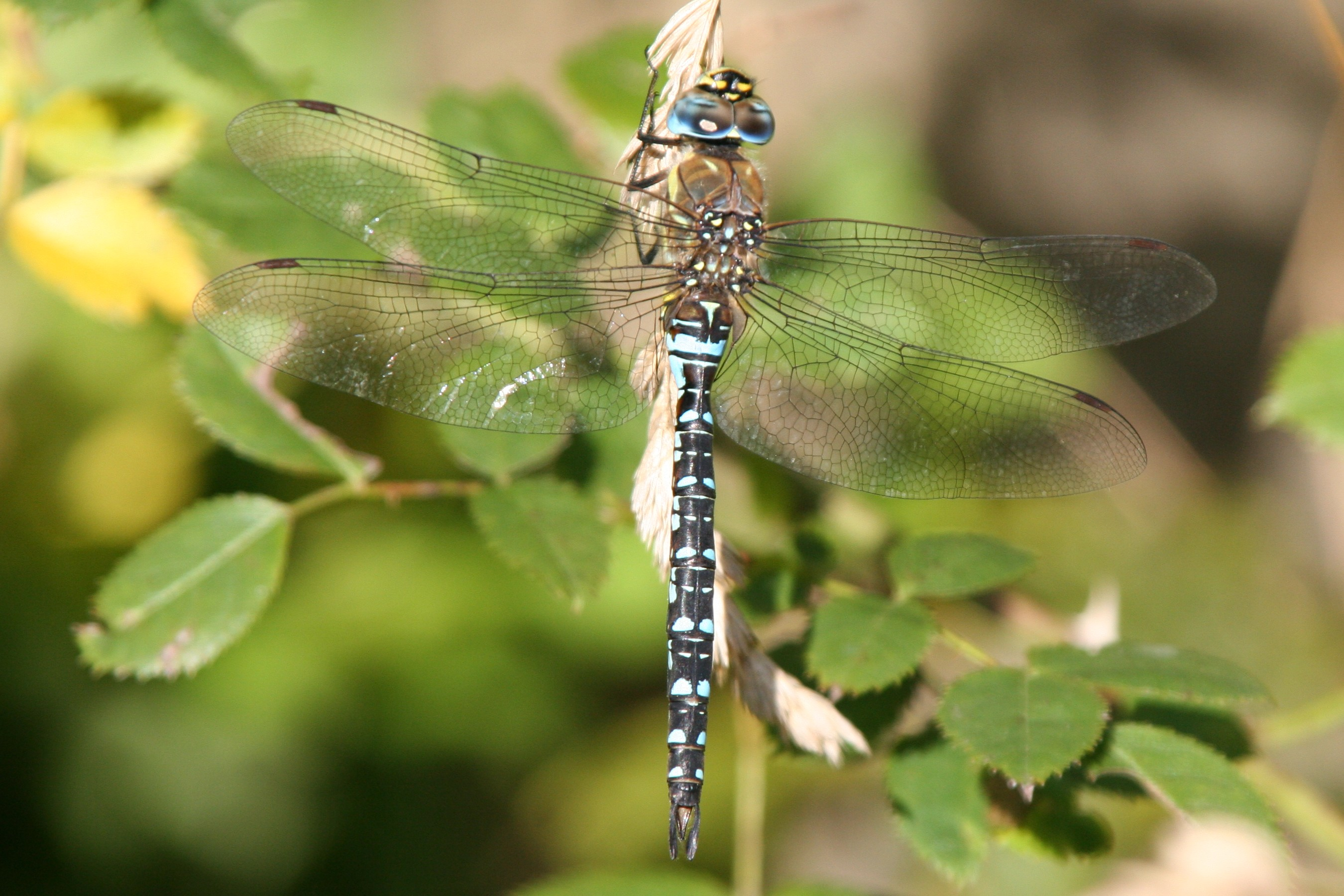 A male Migrant Hawker dragonfly (Aeshna mixta), photographed in Weinsberg